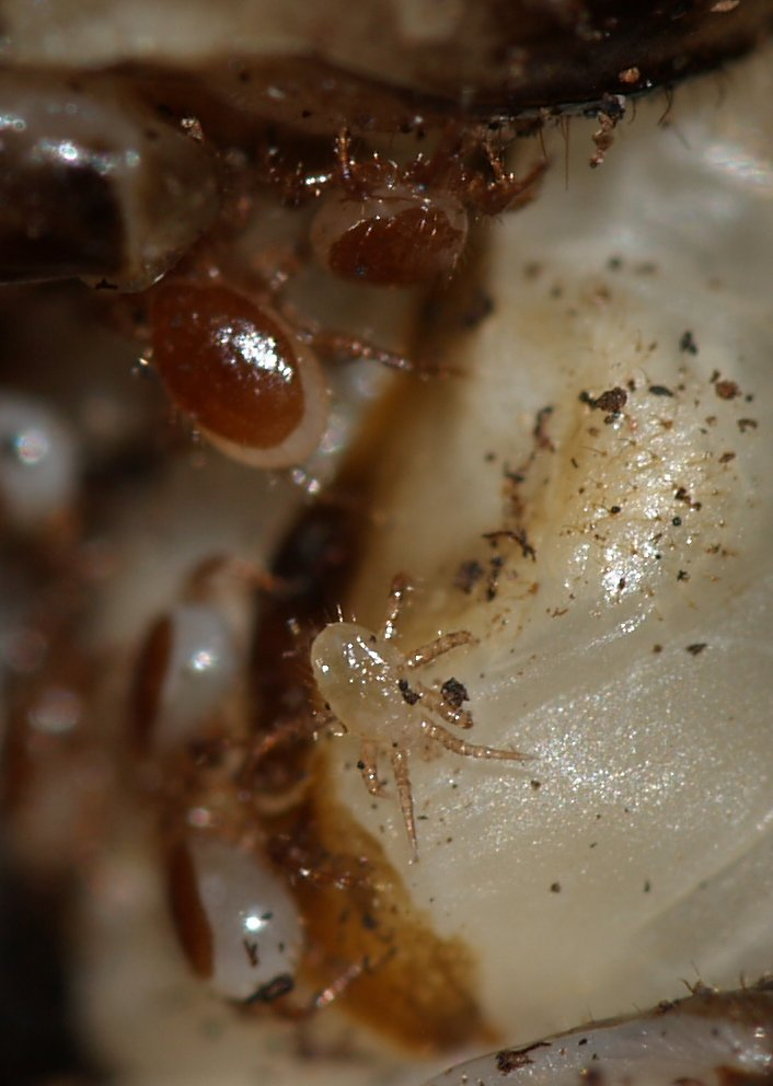 Androlaelaps schaeferi on Gromphadorhina portentosa. In Cologne Zoo, Germany. Juvenile in center, adults around it.